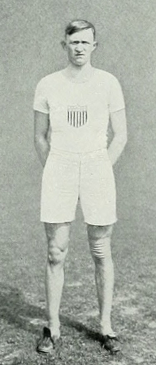 Albert Gutterson at the 1912 Summer Olympics